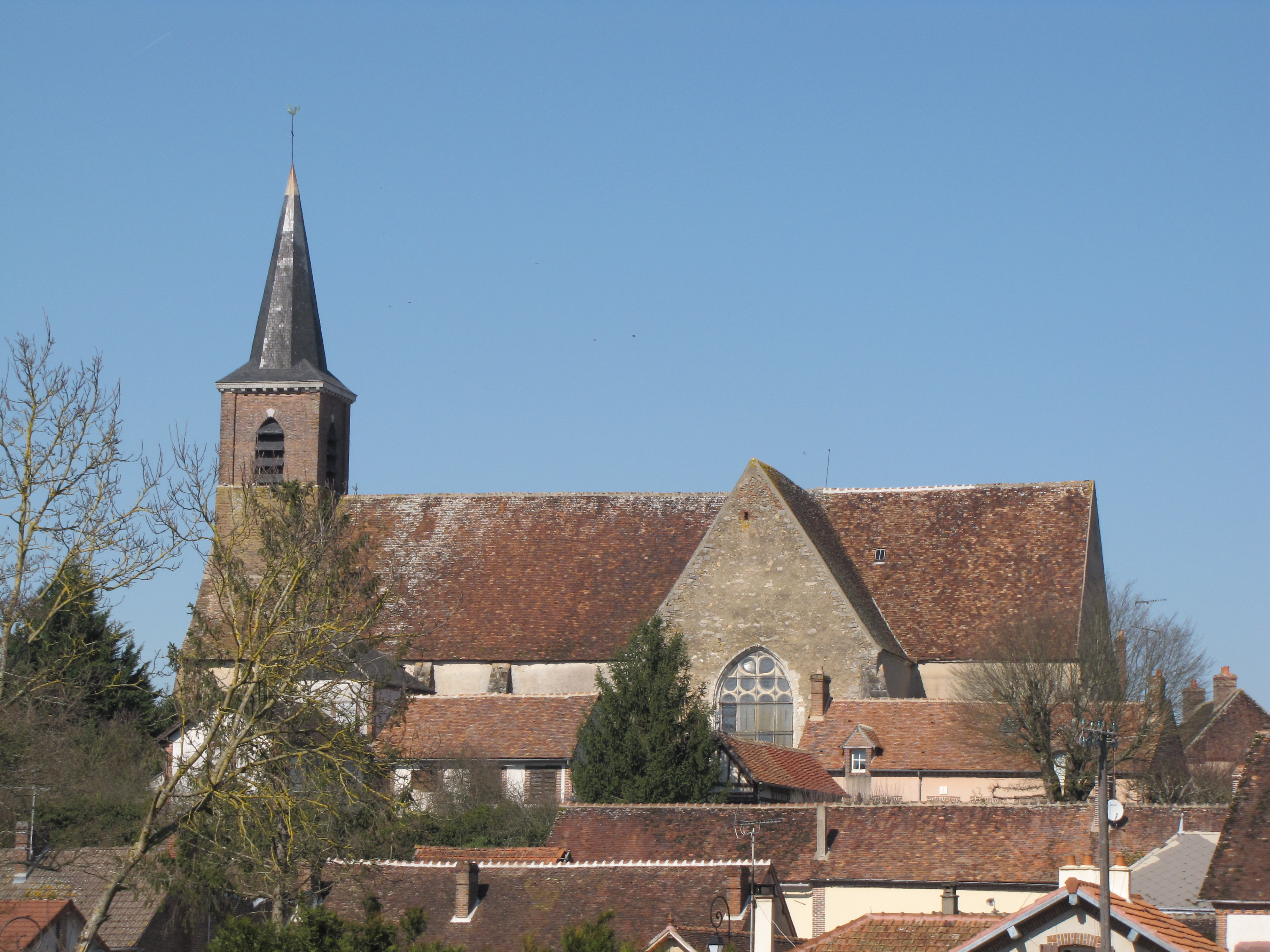 Saint-Martin-sur-Ouanne, the Saint-Martin church seen from the south